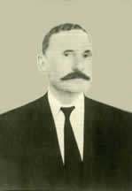 Picture of Thomas Donohoe, one of the pioneers of brazilian football.